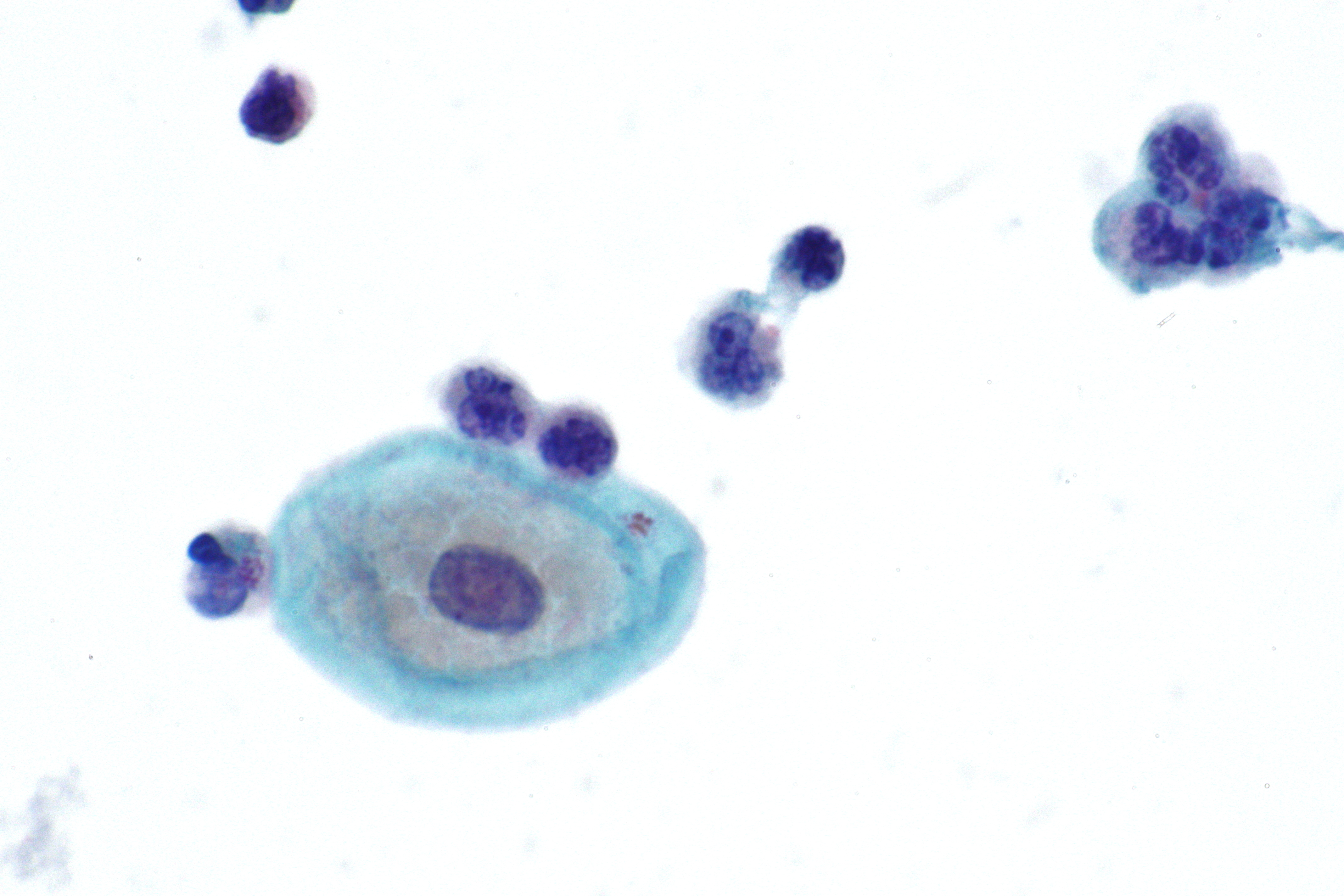 Micrographs showing navicular cells. Pap stain. Navicular means boat-shaped. Navicular cells have folded edges. They are benign. Related images NC - high mag. NC - very high mag. NC - very high mag. NC - extremely high mag. NC - high mag. NC - very high mag. NC - very high mag. NC - extremely high mag.